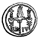 738 woodcuts illustrating the work A Dictionary of Roman Coins, Republican and Imperial (1889). To identify a coin please look at the filename to identify a page number, and check the Dictionary on numiswiki